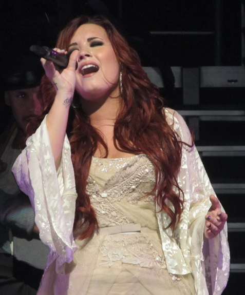 Demi Lovato in December 2011.